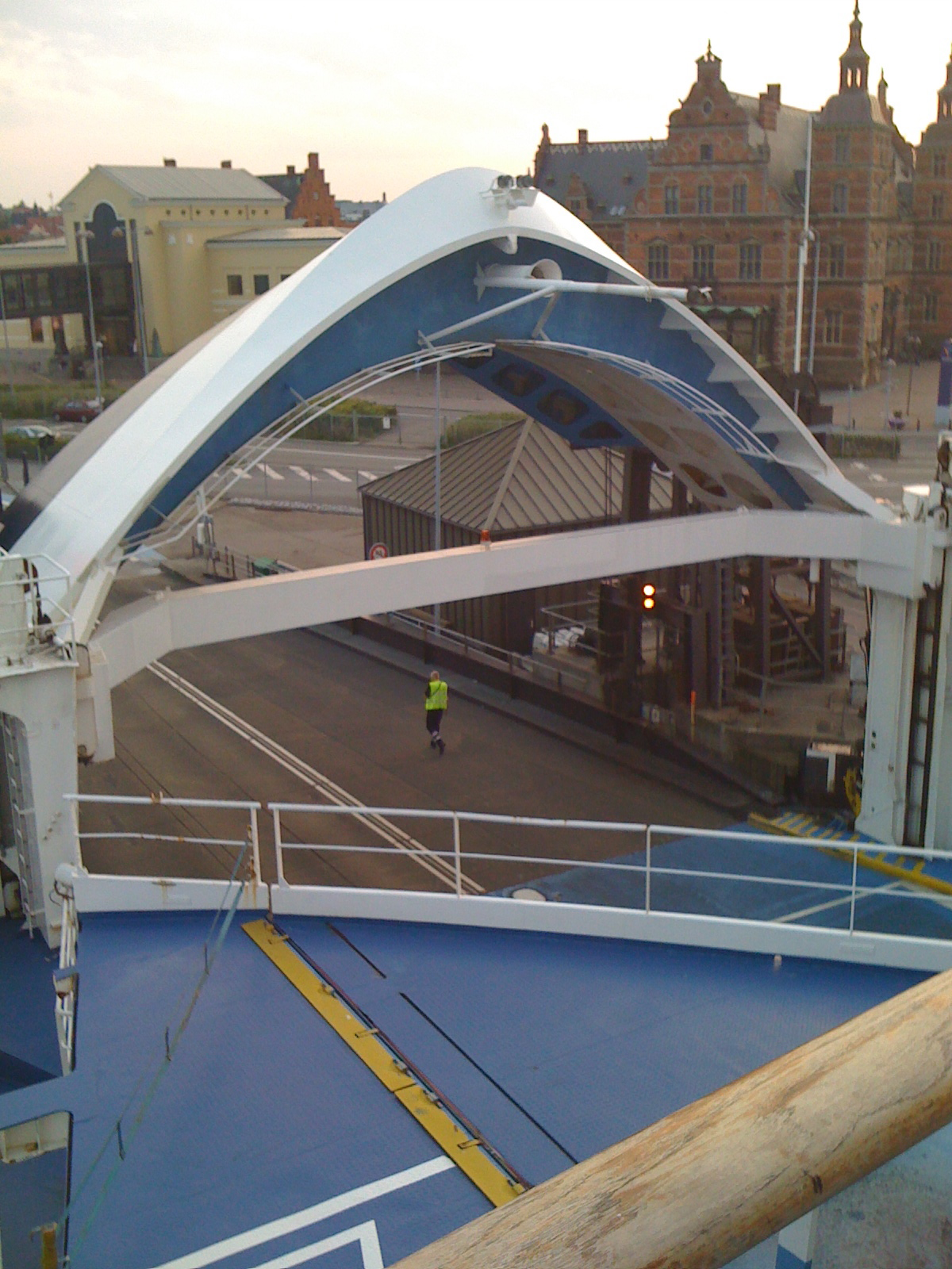 The Helsingør harbor as seen from the ferry going to and from sweden.